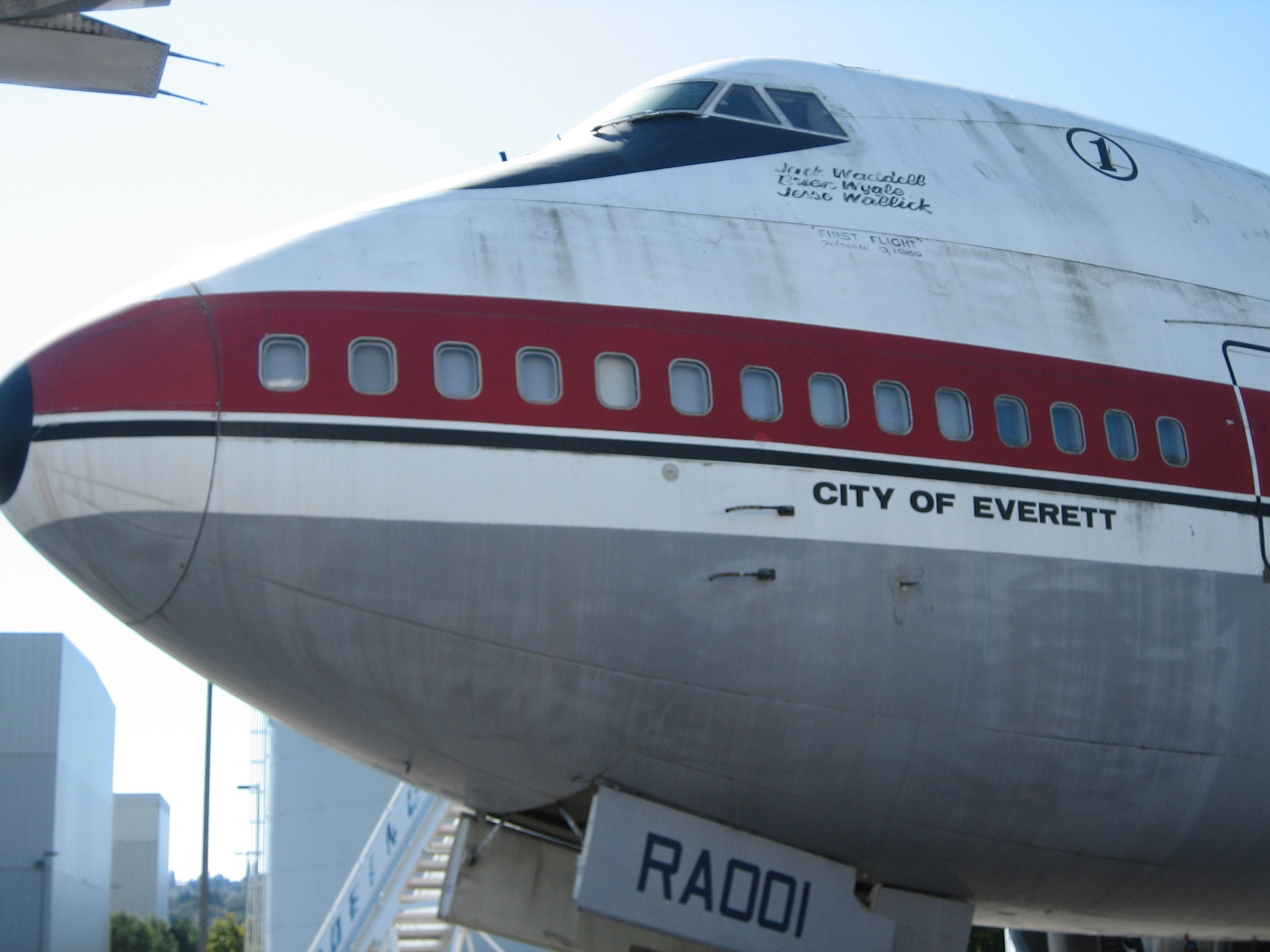 The Boeing 747 prototype City of Everett. This plane is currently located at the Museum of Flight on Boeing Field, Seattle, Washington. The prototype had its first test flight on 9 February, 1969. It is named after the City of Everett, Washington where it was constructed.